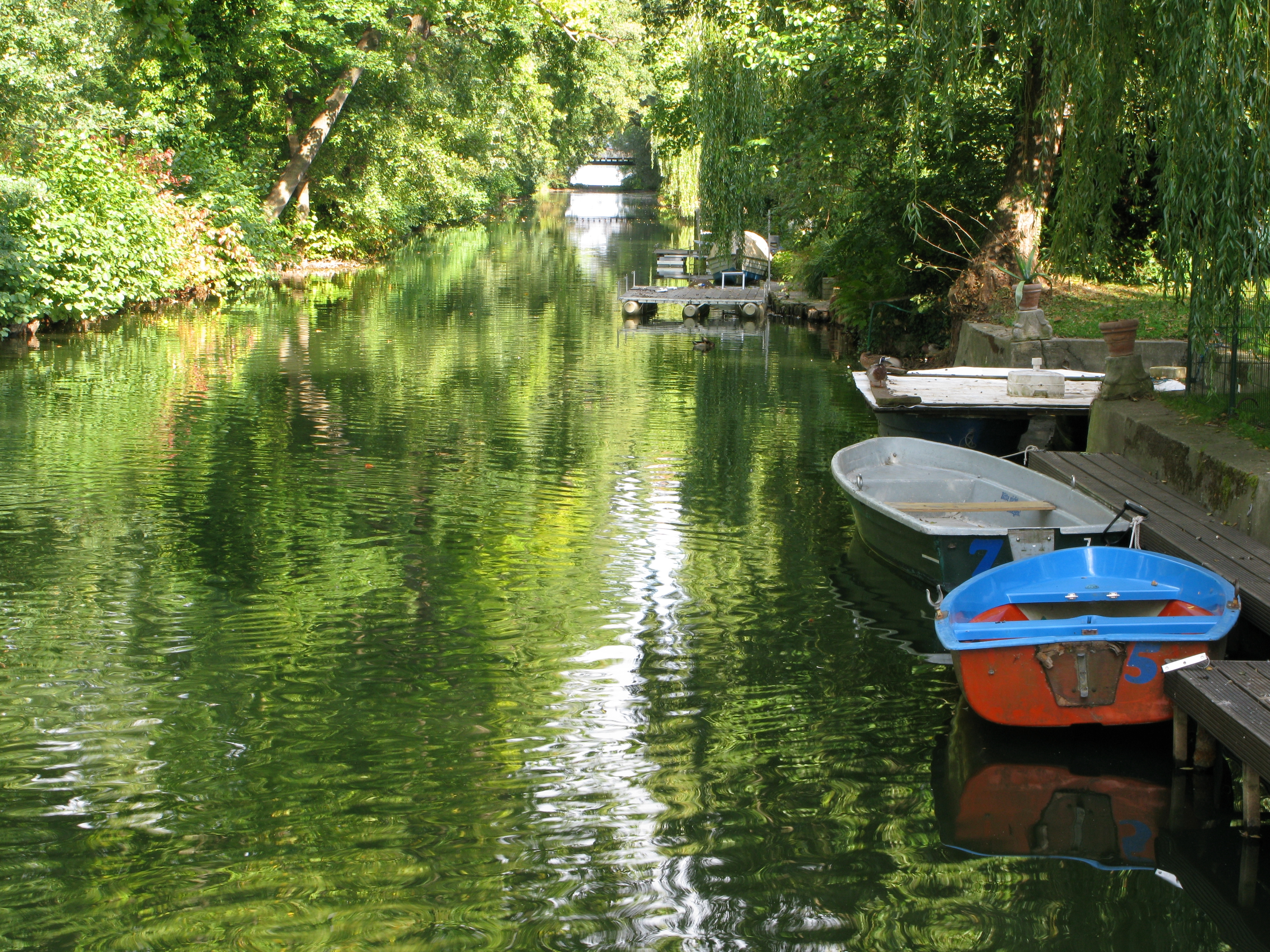 Hasengraben. Canal in Potsdam, connecting Heiliger See and Jungfernsee.